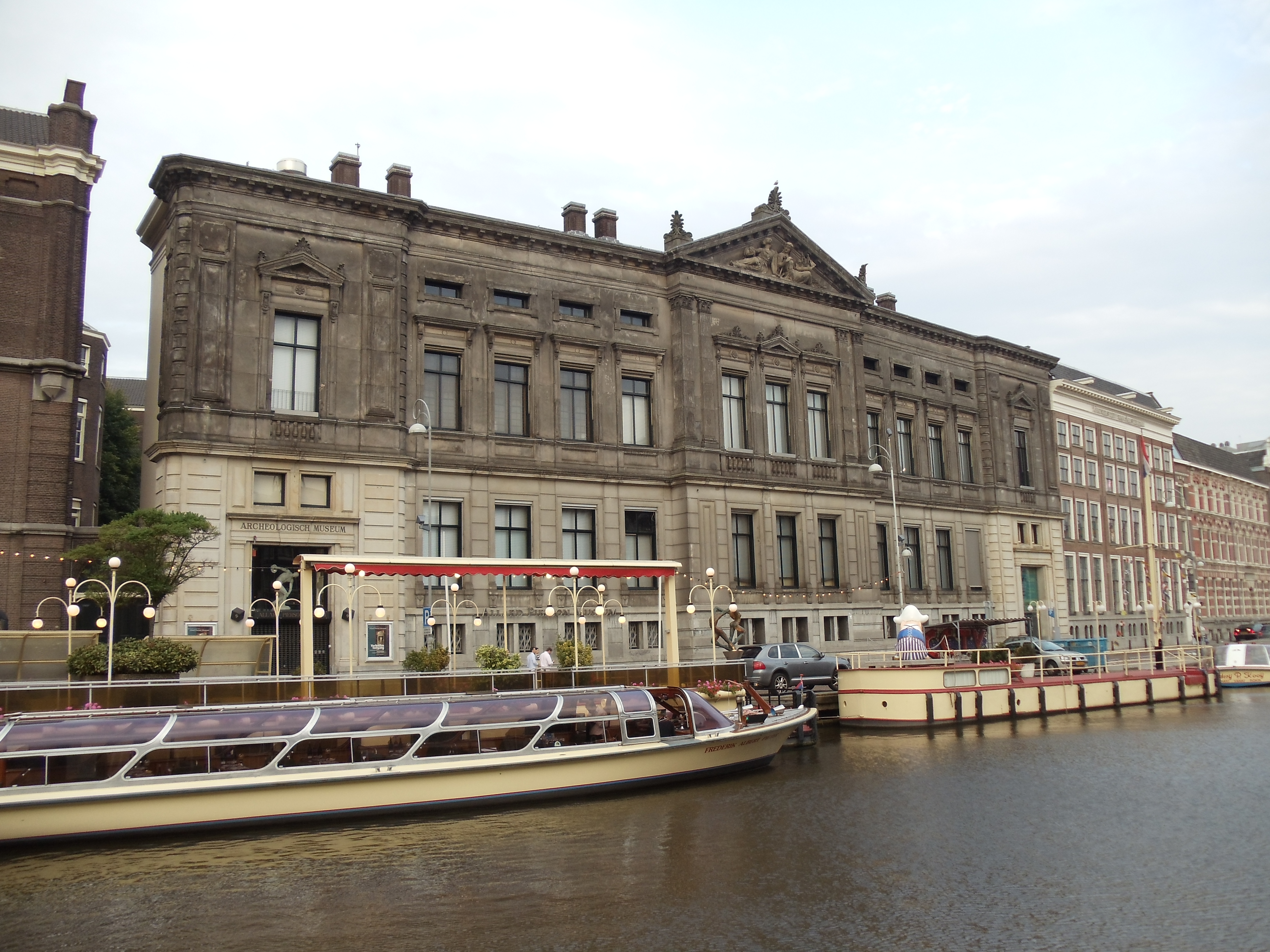 The Allard Pierson Museum is the University of Amsterdam's archeological museum.